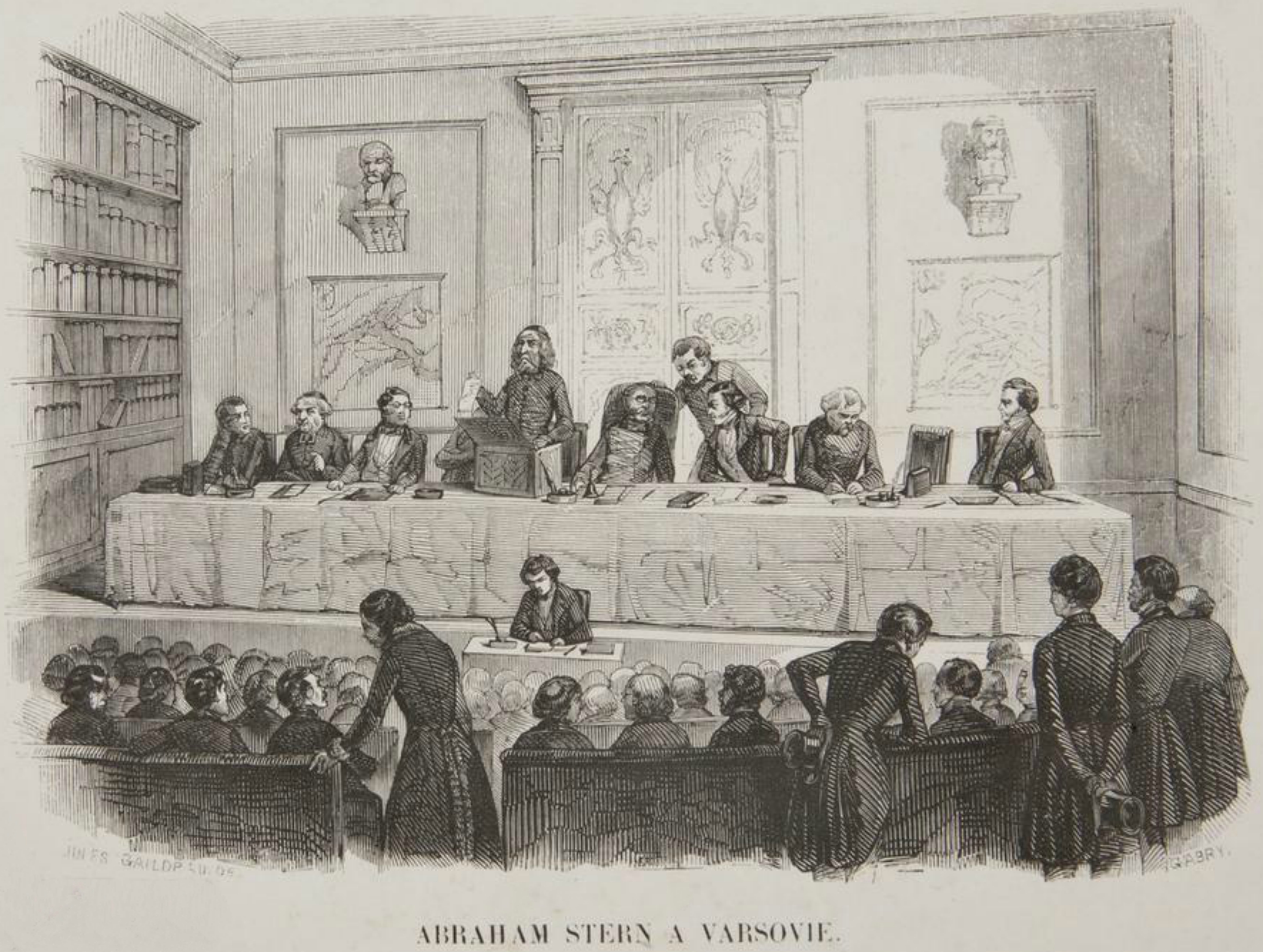 braham Stern demonstrating one of his calculating machines in Warsaw (at public sittings of the Friends of Sciences Society, Stern's Jewish clothes among black tailcoats worn by his colleagues always puzzled people who were not aware who he was)